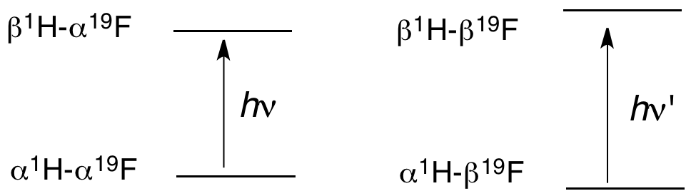 energy diagram illustrating J-coupling (probably will be improved and replaced in near future)